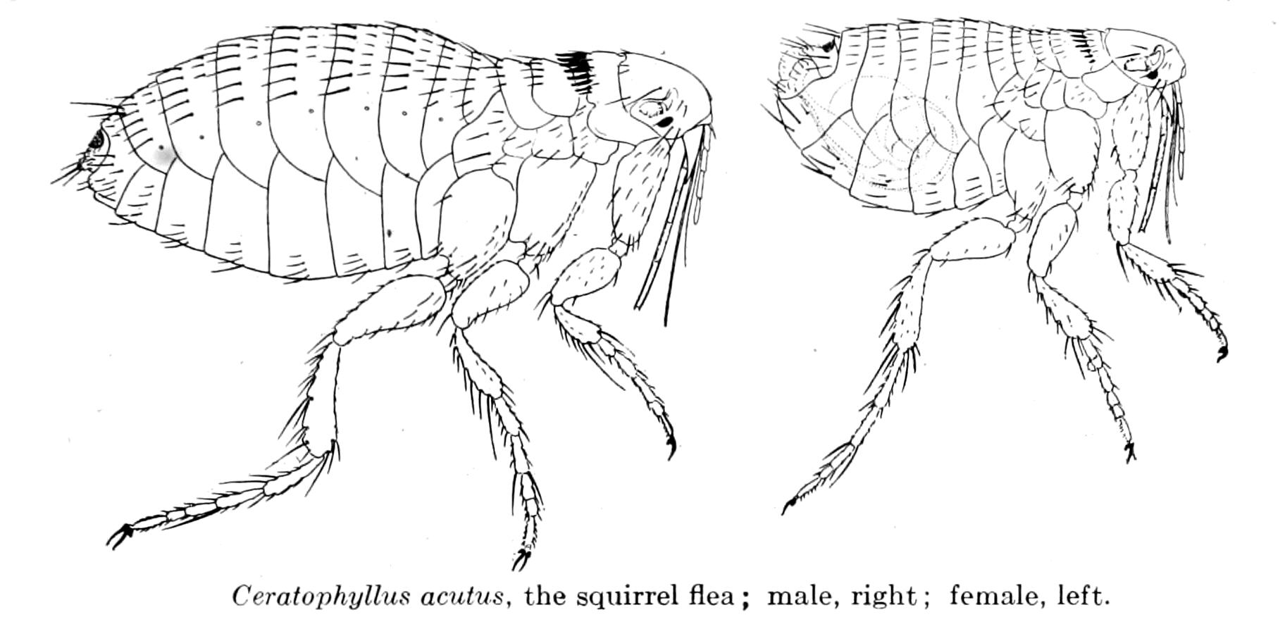 Ceratophyllus acutus The Internet Archive notes it as out of copyright